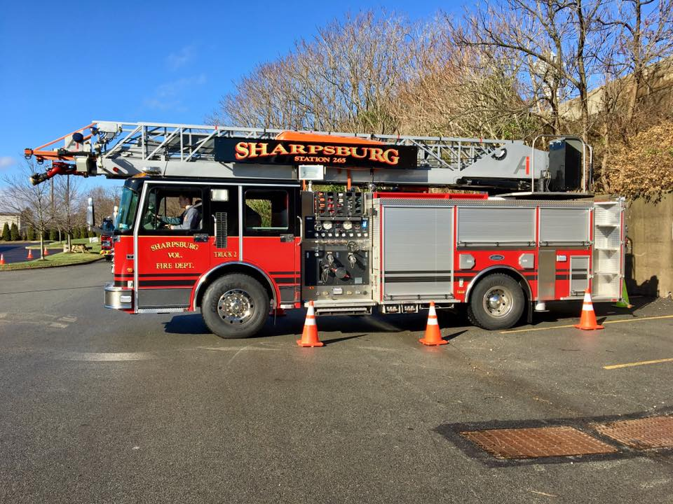 Sharpsburg Vol. Fire Dept. Truck 265.